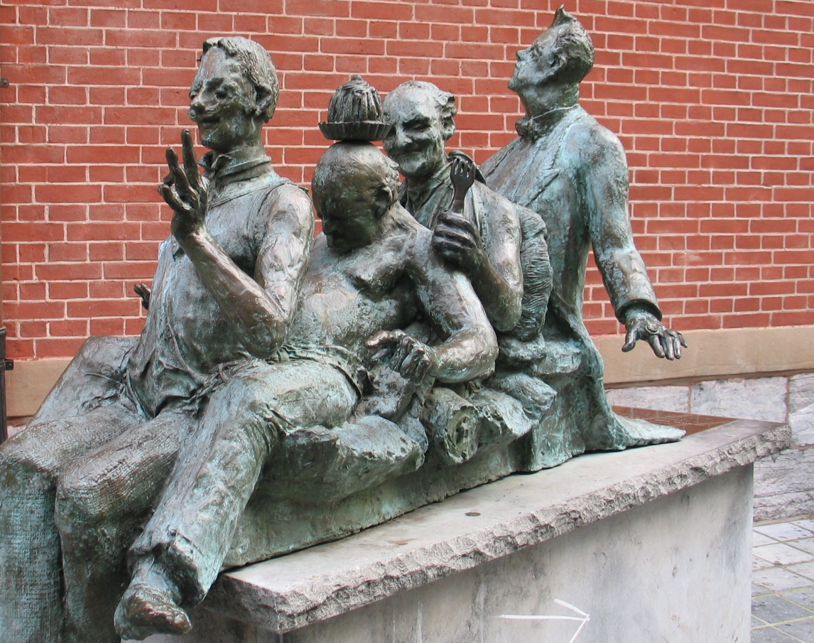 Statue in Maaseik (Roland Rens, 1952-2007), Belgium